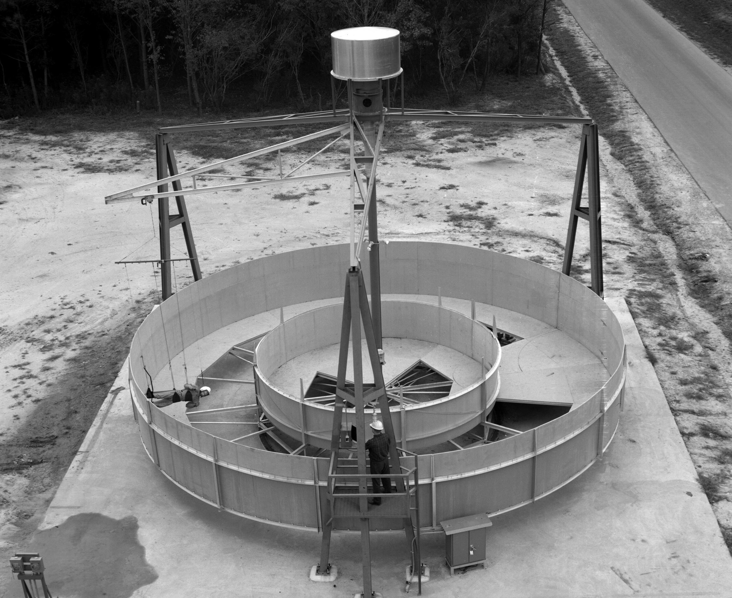 NASA describes this picture with these words: "A Langley engineer takes a walk-in simulated zero gravity around a mock-up of a full-scale, 24-foot-diameter space station." Published in James R. Hansen, Spaceflight Revolution: NASA Langley Research Center From Sputnik to Apollo, NASA SP-4308, p. 282. ID: EL-2002-00460 Source edited slightly by cropping out some parts of original.